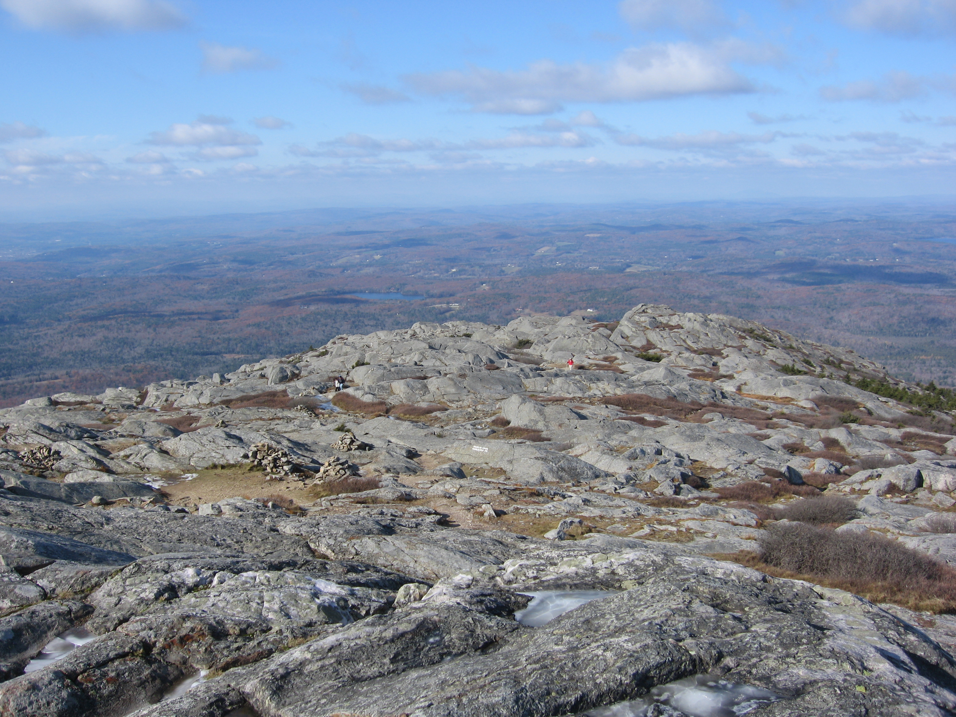 Rocky plateau on summit of Mount Monadnock